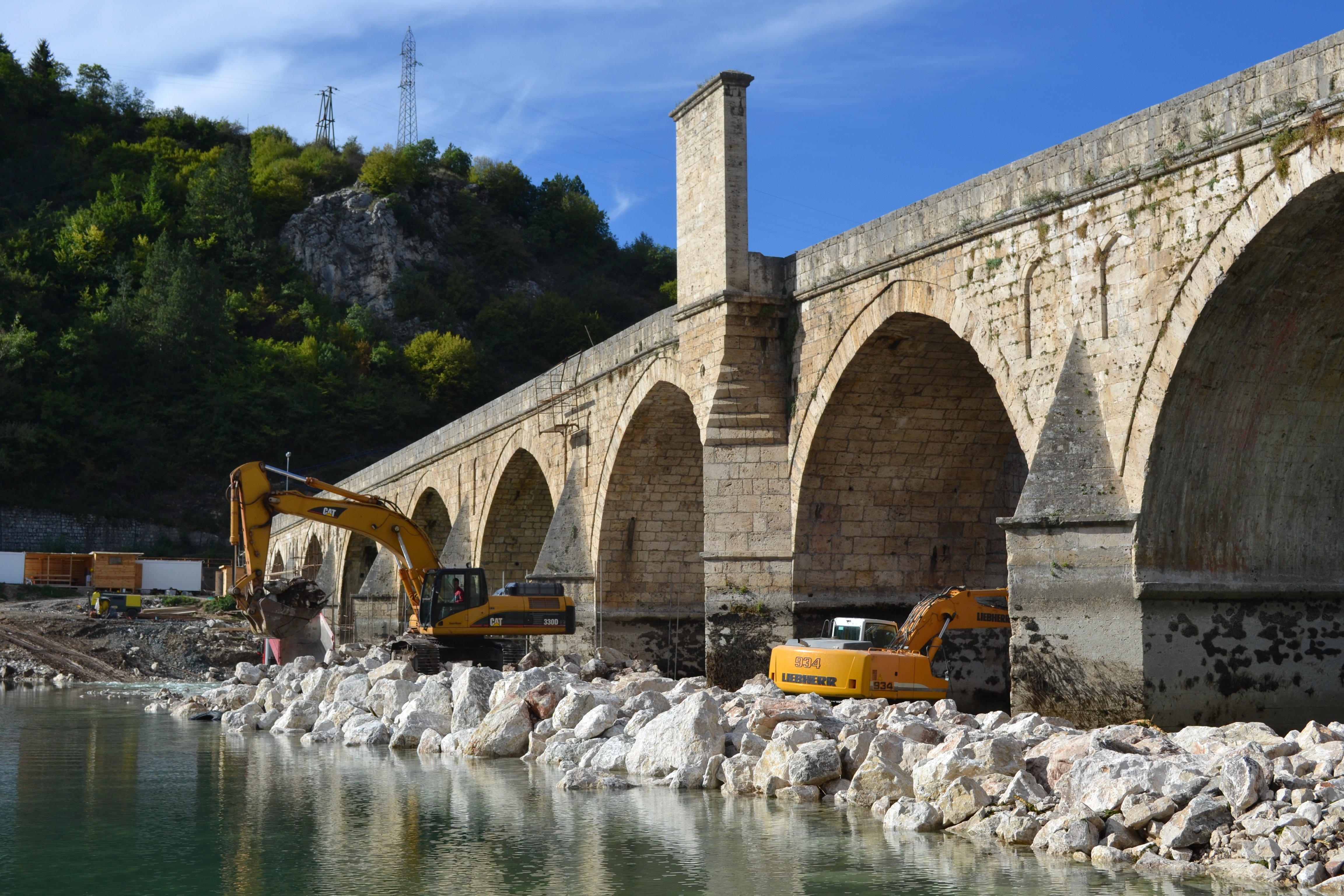 Repair works on strengthening the bridge foundations, committed in 2013.